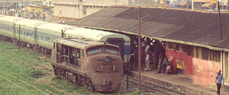 Kumasi railway station, the center of the Ashanti region in Ghana.